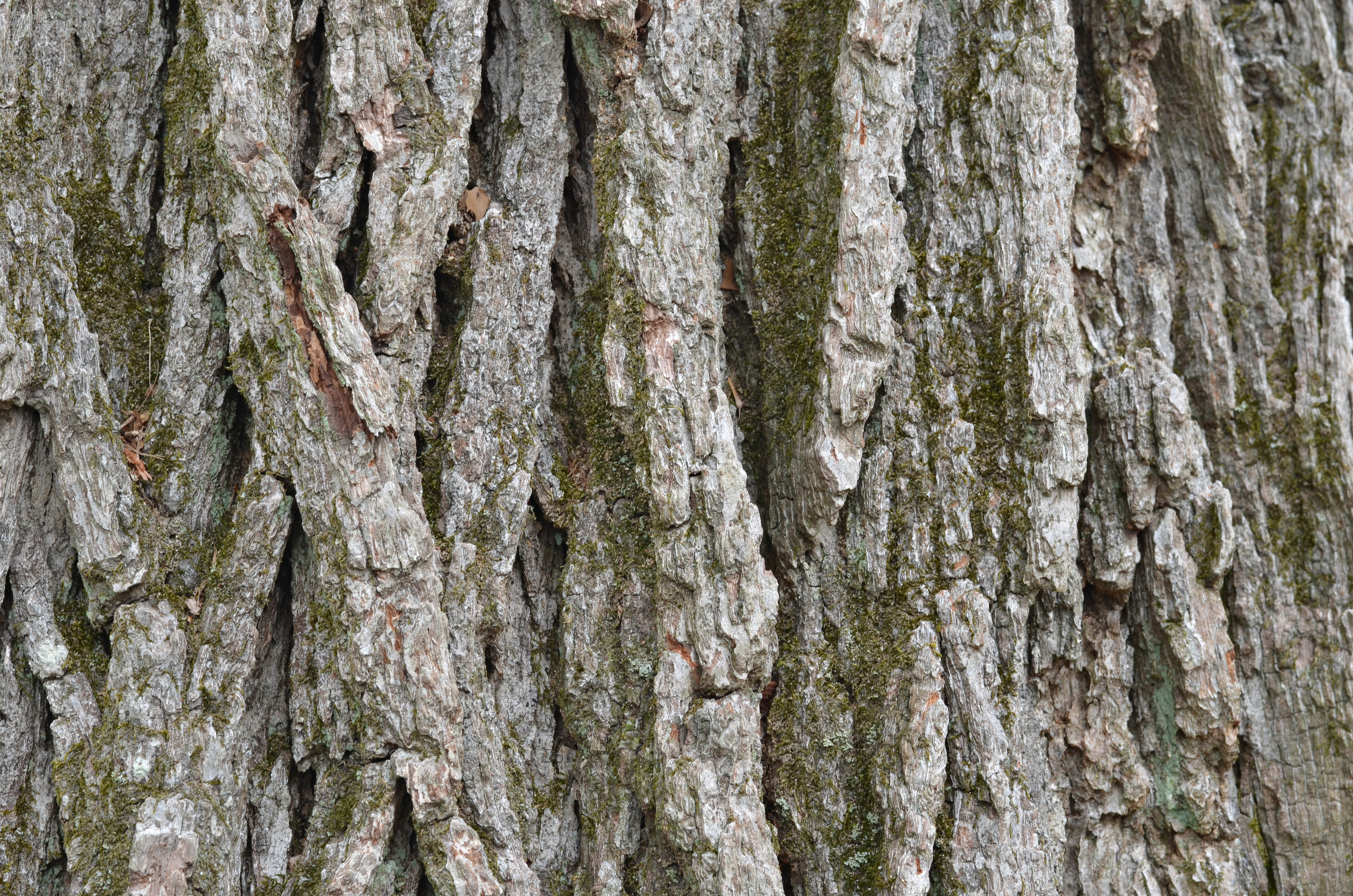 Photograph of the bark of the Swamp Whiteen (Quercus bicolor en ). Photo taken at the Tyler Arboretum where its species was identified. The tree is at least as old as 1873.